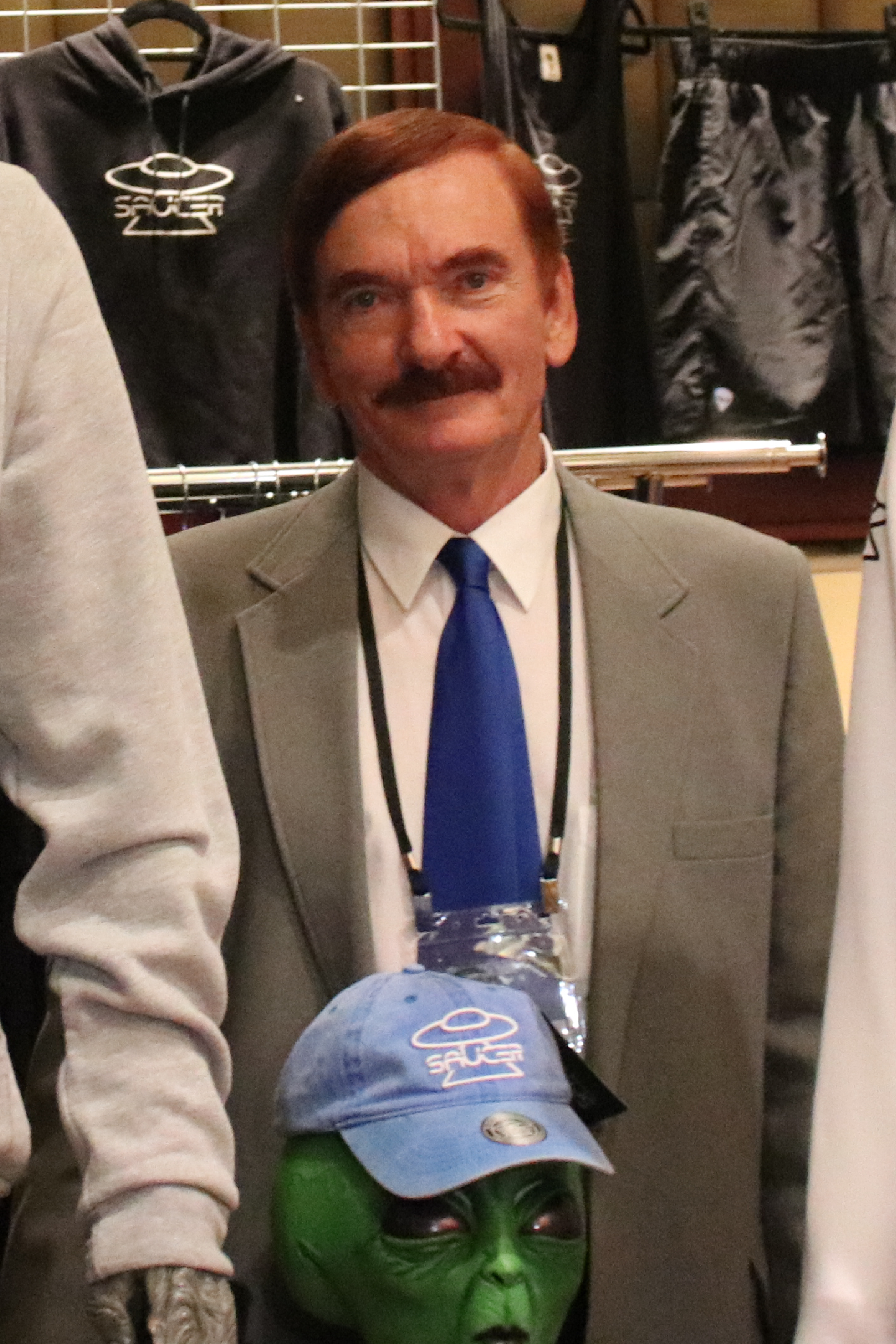 Travis Walton at The 2019 International UFO Congress in Phoenix, Arizona.